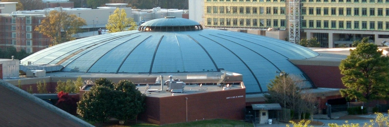 Alexander Memorial Coliseum viewed from the SouthEast side (Atlanta, GA, USA)